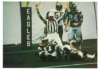 football card from the 1986 Jeno's Pizza NFL football card stickers set of Philadelphia Eagles wide receiver Harold Carmichael scoring a touchdown against the New Orleans Saints during a November 6, 1977 home game at Veterans Stadium. The card is numbered #6 in the set. The back of the card reads: THIS IS A FAMILIAR SIGHT Eagles wide receiver Harold Carmichael lands in the New Orleans Saints' end zone with one of the 79 touchdown passes he caught in his 14-year NFL career. The Philadelphia star also caught passes in 127 consecutive games to establish an NFL record, surpassing the old mark of 105 in 1979.